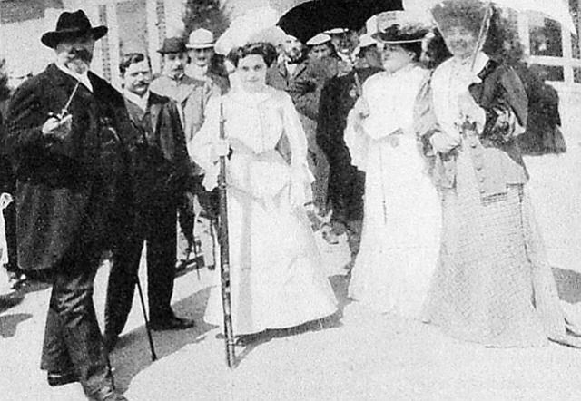 József Márkus (leeft), Lord Mayor of Budapest in May 1905